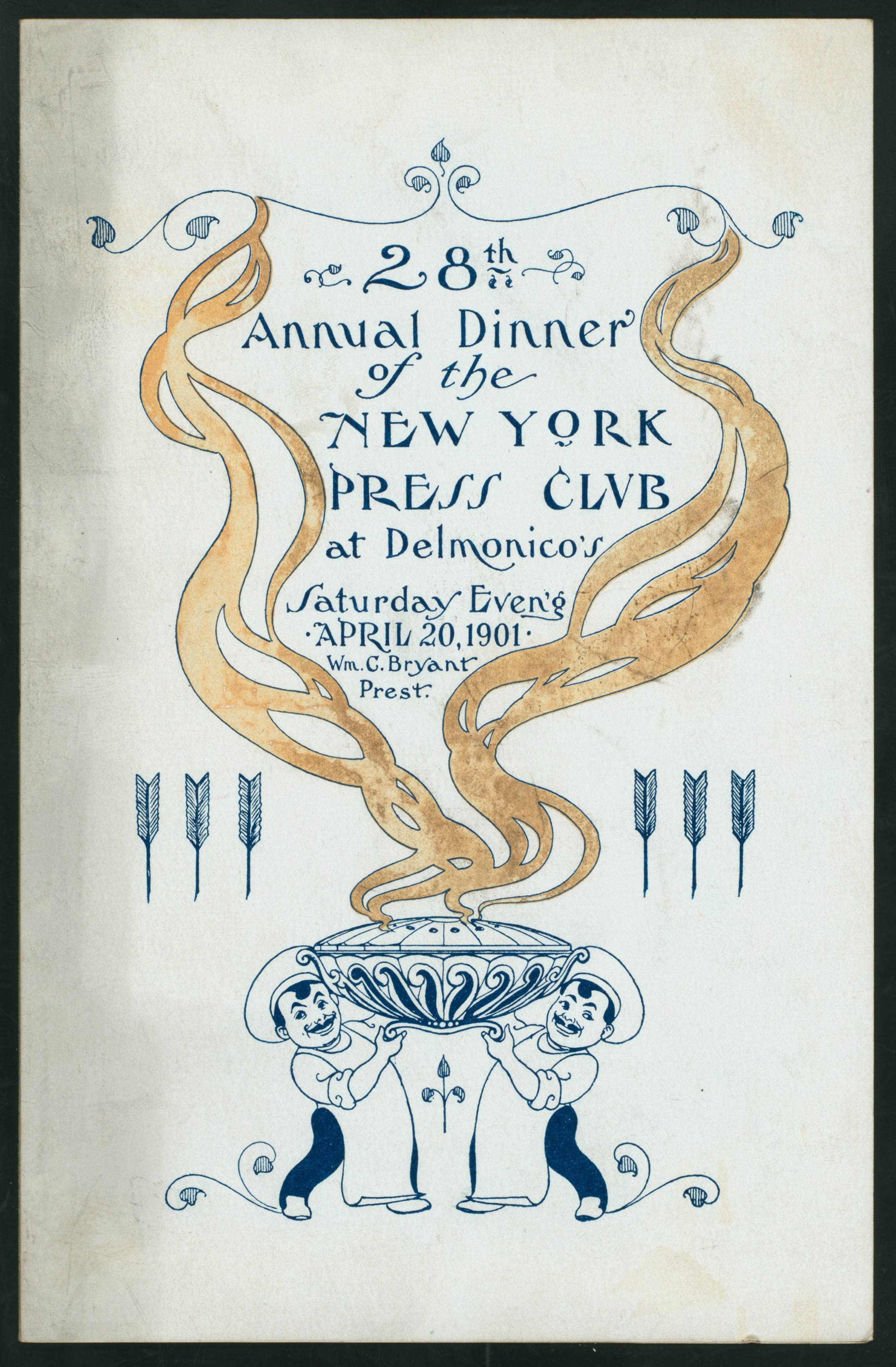 COOKS HOLDING STEAMING COVERED DISH;NAMES;MUSICAL PROGRAM;FRENCH MENU;WINES;SEPARATE SEATING LIST